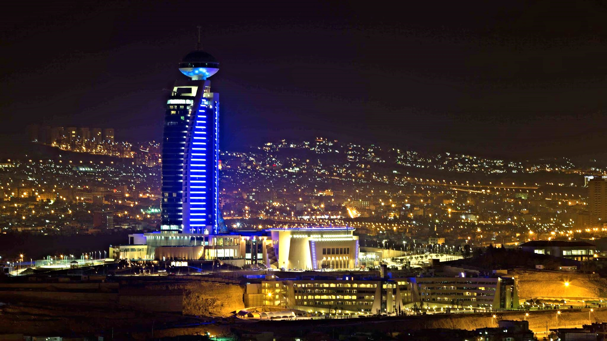 Grand Millennium Sulaimani Hotel in Sulaymaniyah, Kurdistan